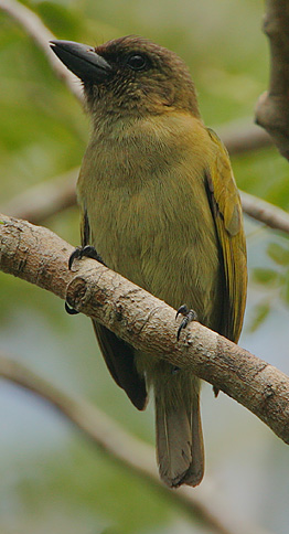 Green Barbet. The plain green, unobtrusive barbet of East African coastal forest was photographed at Arabuko-Sokoke Forest, coastal Kenya